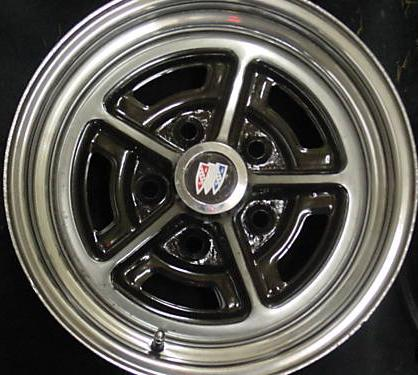 A Rallye Rim produced by Buick in the Muscle Car era